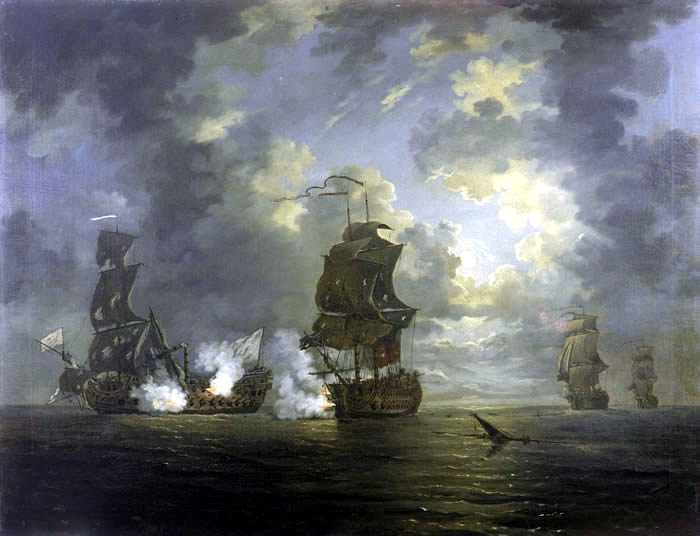 The Capture of the Foudroyant by HMS Monmouth, 28 February 1758